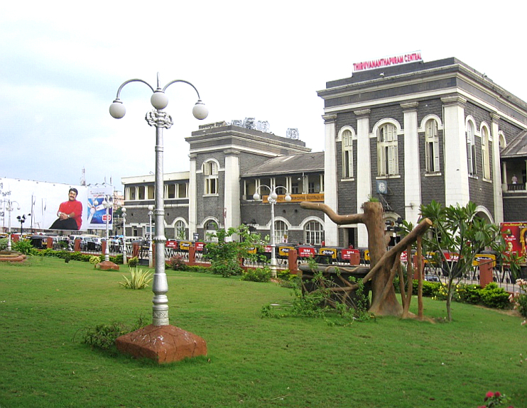 photographer : Rajith Mohan